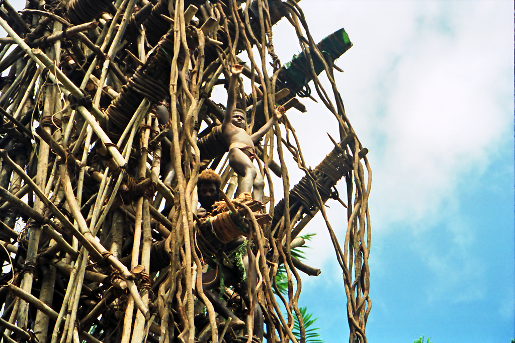 A boy getting ready to jump, Pentecost Island Vanuatu 1992 Jumping from the tower is a rite of passage for boys. The men jump from higher platforms during the ceremony.